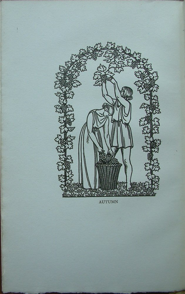 The frontispiece of Keats's Odes with a wood engraving by Vivien Gribble